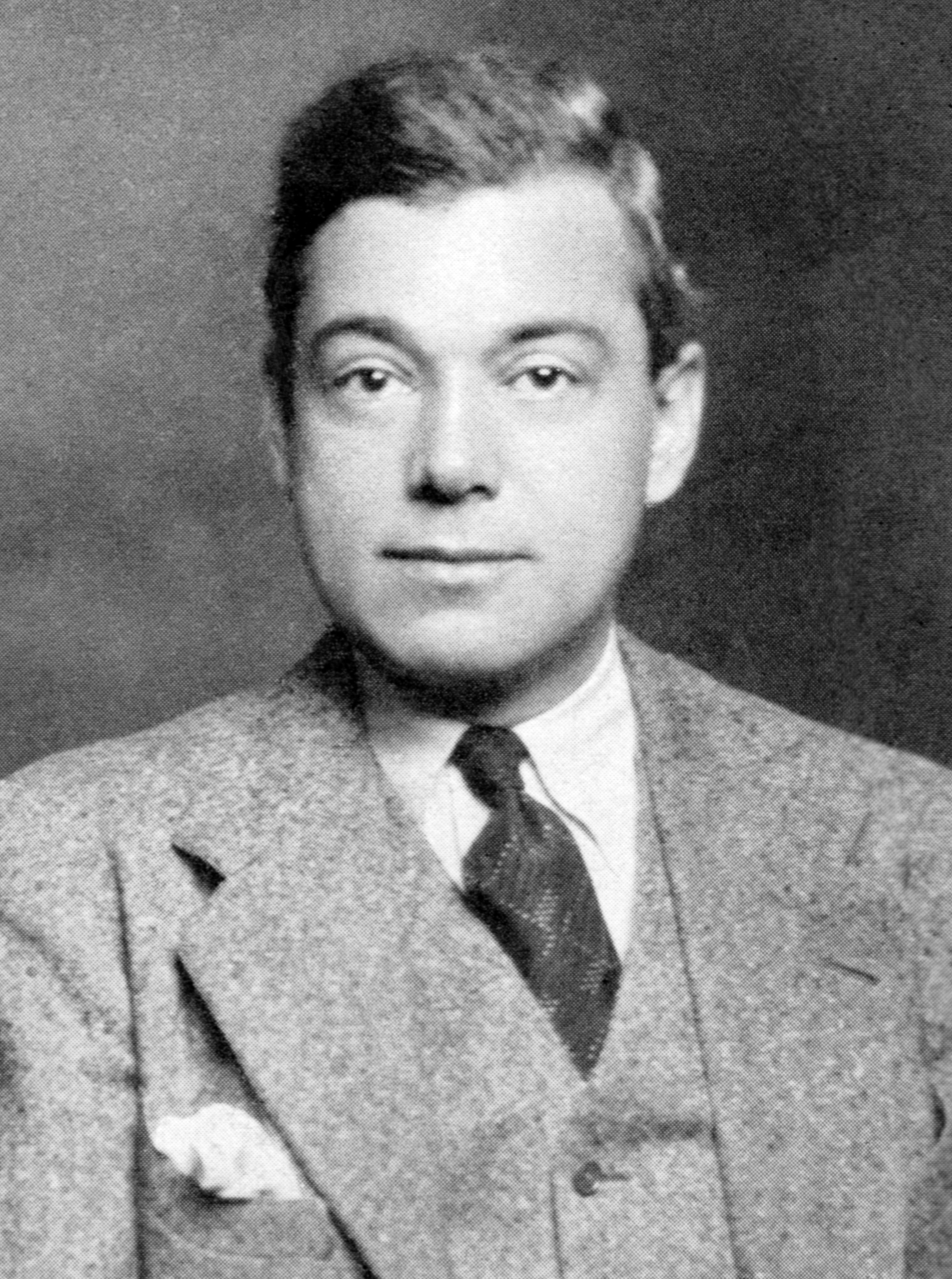 Photograph of George Jean Nathan